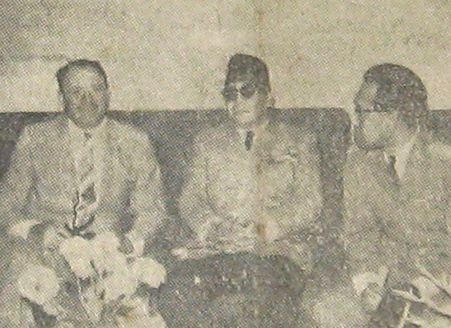 Ayub Khan with Sukarno and Hamengkubuwono IX